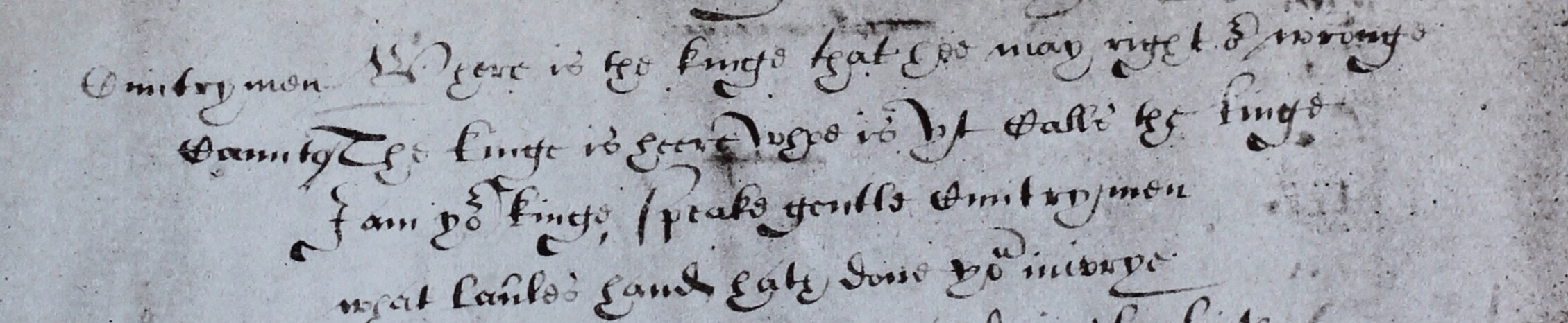 a few handwritten lines from Act I, scene i of Edmund Ironside